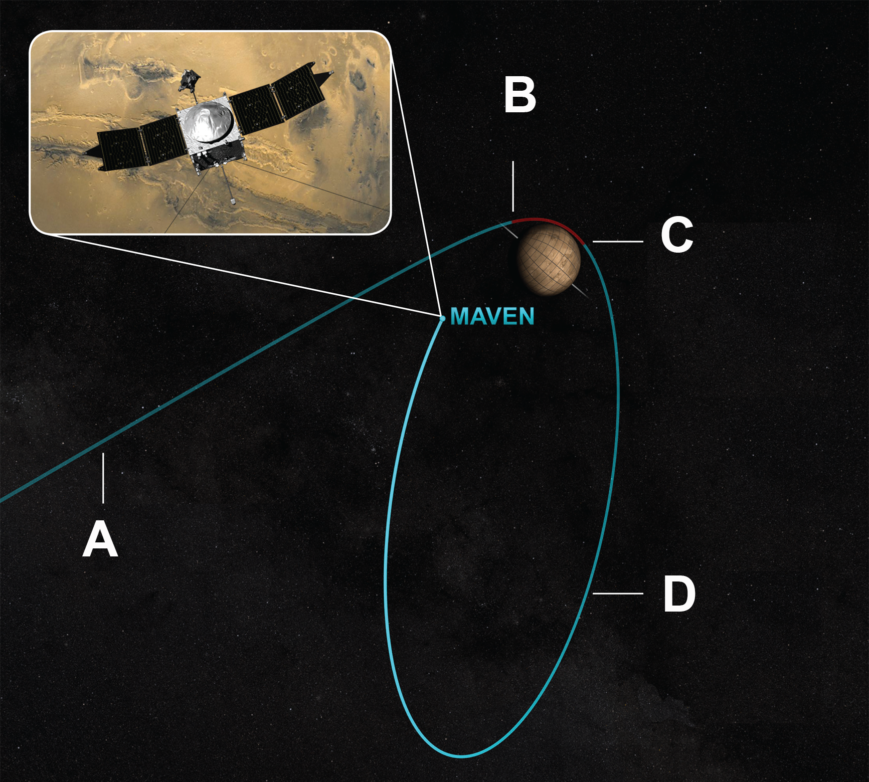 This image shows an artist concept of the trajectory of NASA's Mars Atmosphere and Volatile Evolution (MAVEN) mission as it approaches the Red Planet. On Sept. 21, 2014, MAVEN will enter orbit around Mars, completing an interplanetary journey of 10 months and 442 million miles (711 million kilometers). Launched in November 2013, the mission will explore the Red Planet’s upper atmosphere, ionosphere and interactions with the sun and solar wind. Scientists will use MAVEN data to determine the role that loss of volatiles from the Mars atmosphere to space has played through time, giving insight into the history of Mars' atmosphere and climate, liquid water, and planetary habitability. MAVEN is part of NASA's Mars Scout program, funded by NASA Headquarters and managed by NASA's Goddard Space Flight Center in Greenbelt, Maryland.